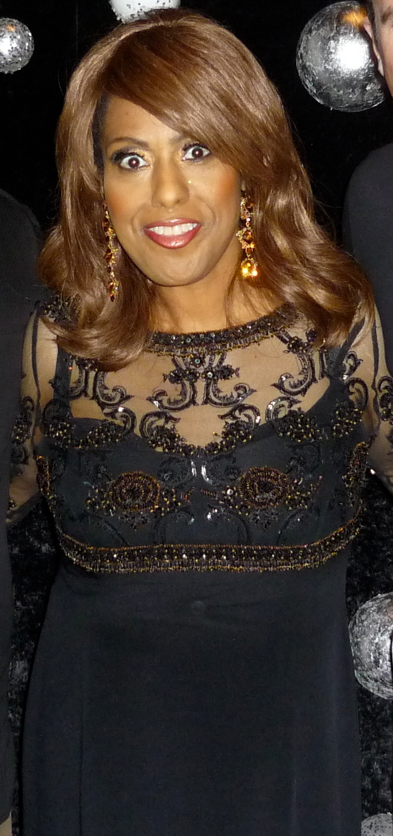 Broadway actress Jennifer Holliday poses with men (cropped)